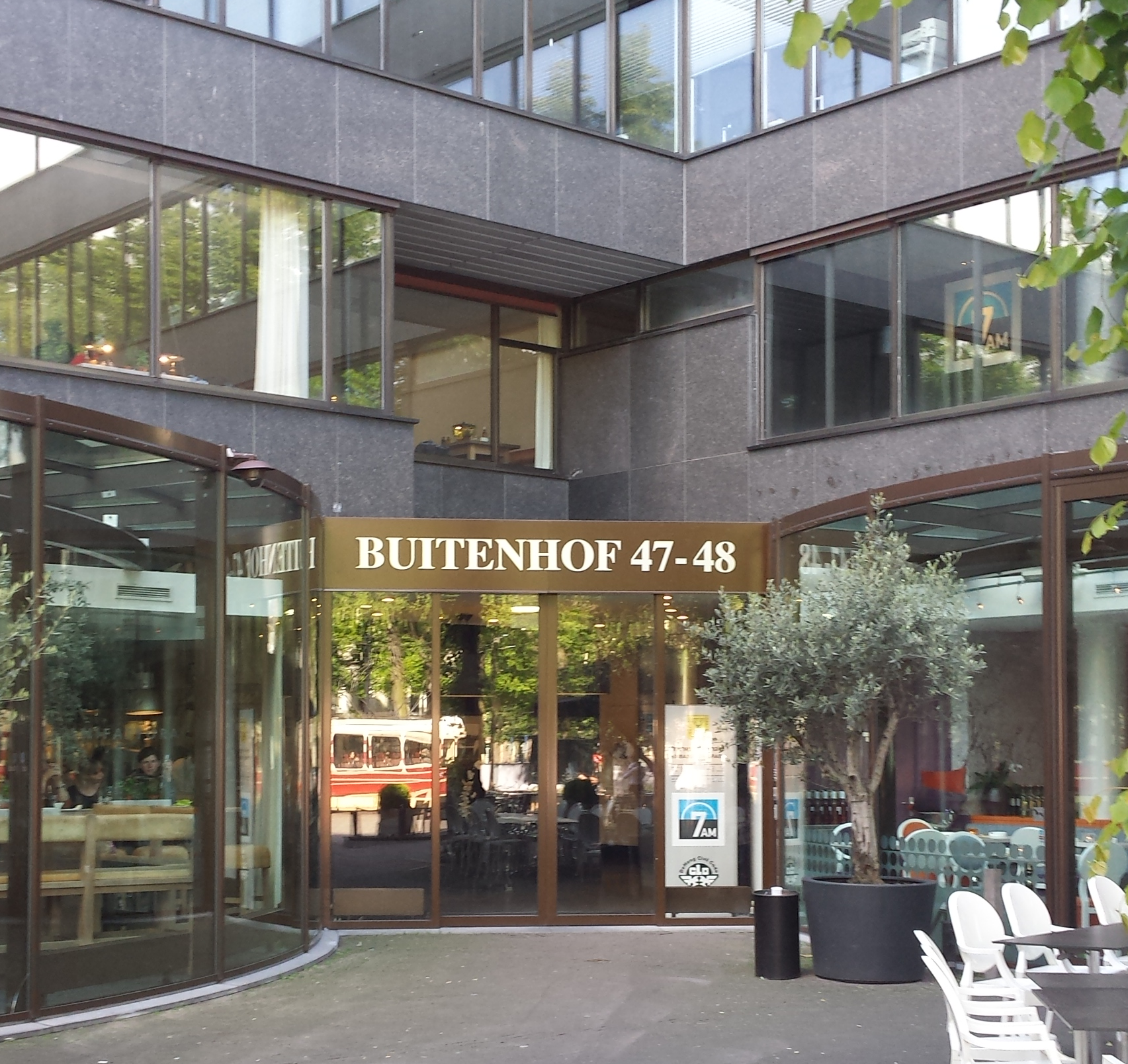 Embassy of Israeli in the Netherlands is located in this building in The Hague . Photo: Persian Dutch Network